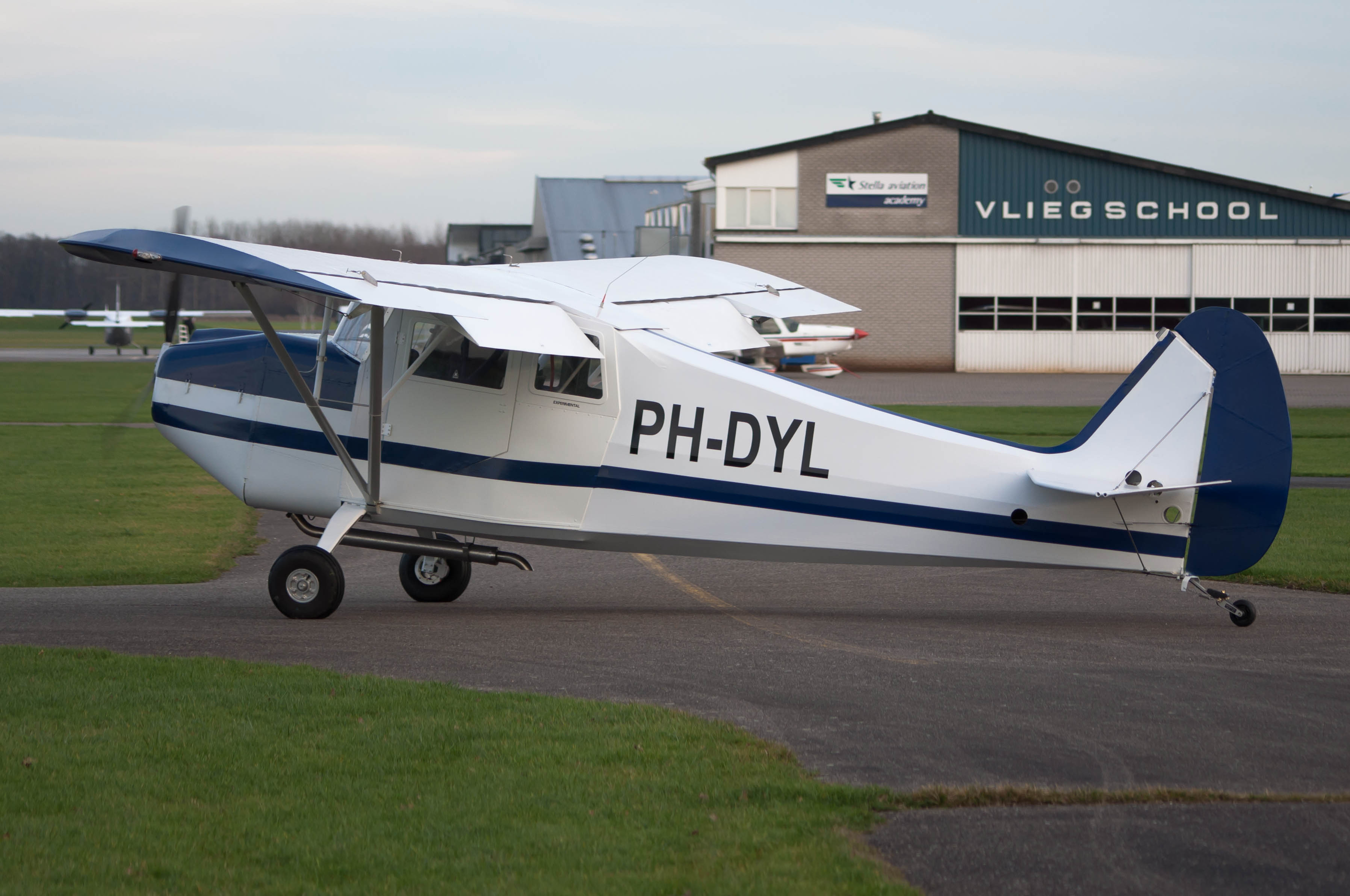 Christavia Mk.4 (Thnx Balloony Dutchman) doing taxi runs at Teuge